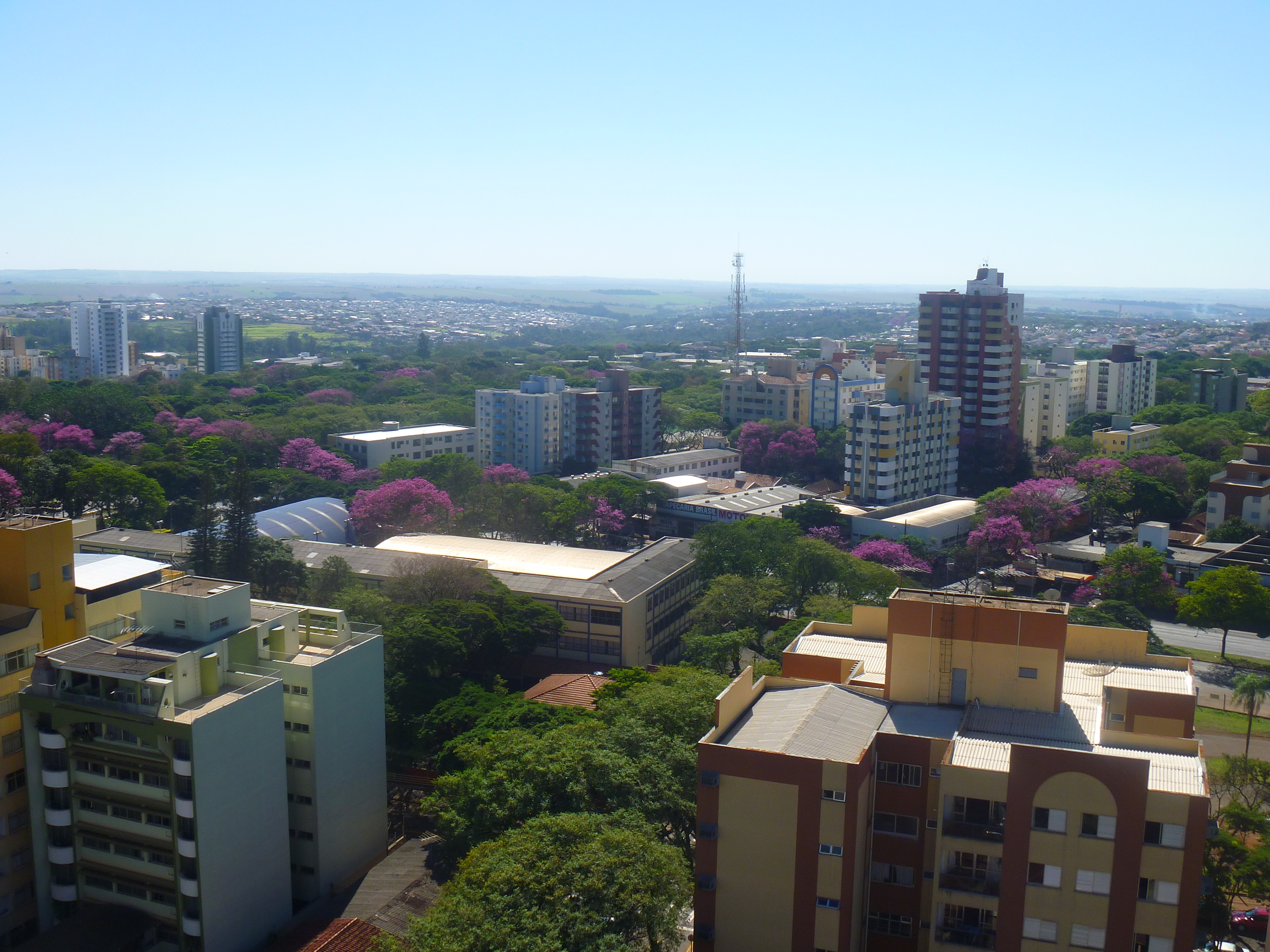 Maringa buildings Brazil